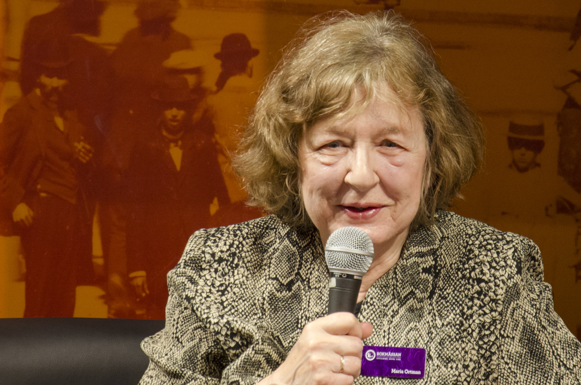 Maria Ortman at the Gothenburg Book Fair 2015.